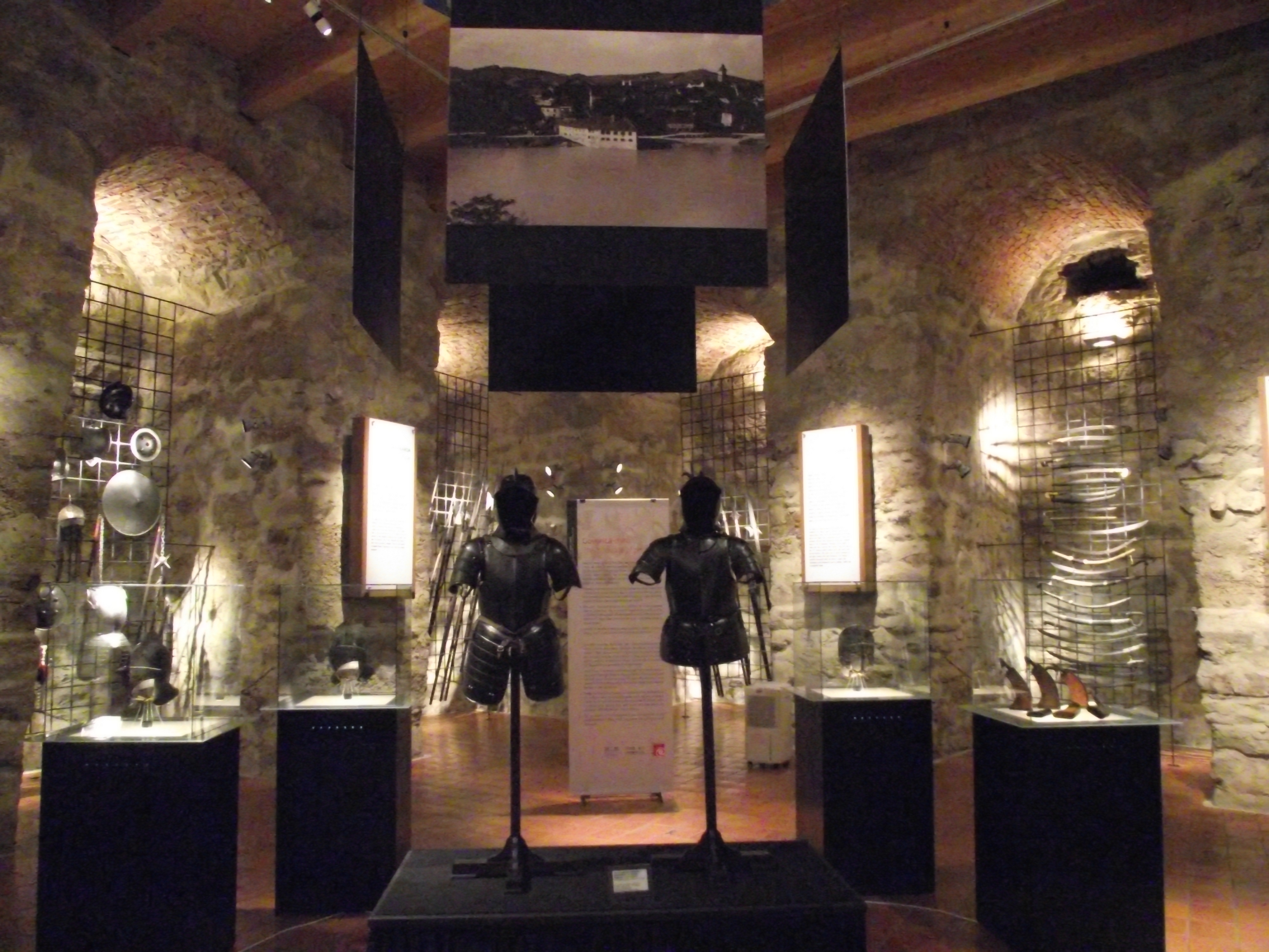 Maribor - History Museum